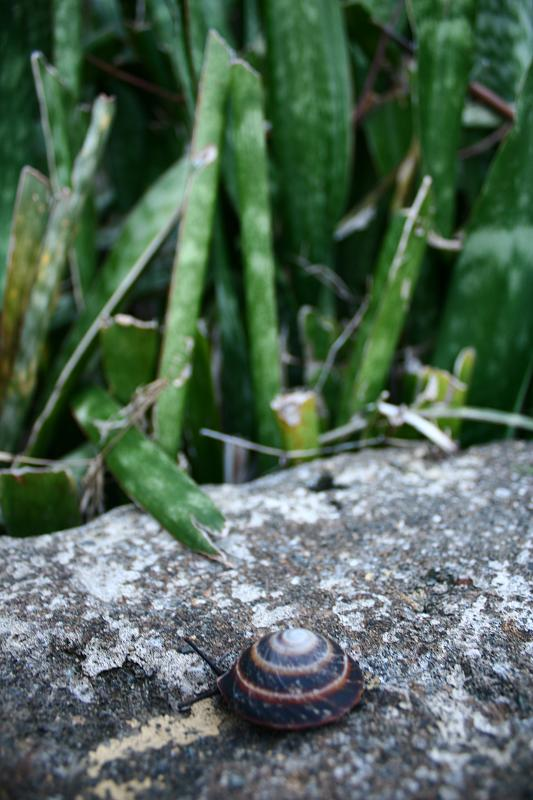 an unidentified gastropod from Cuba